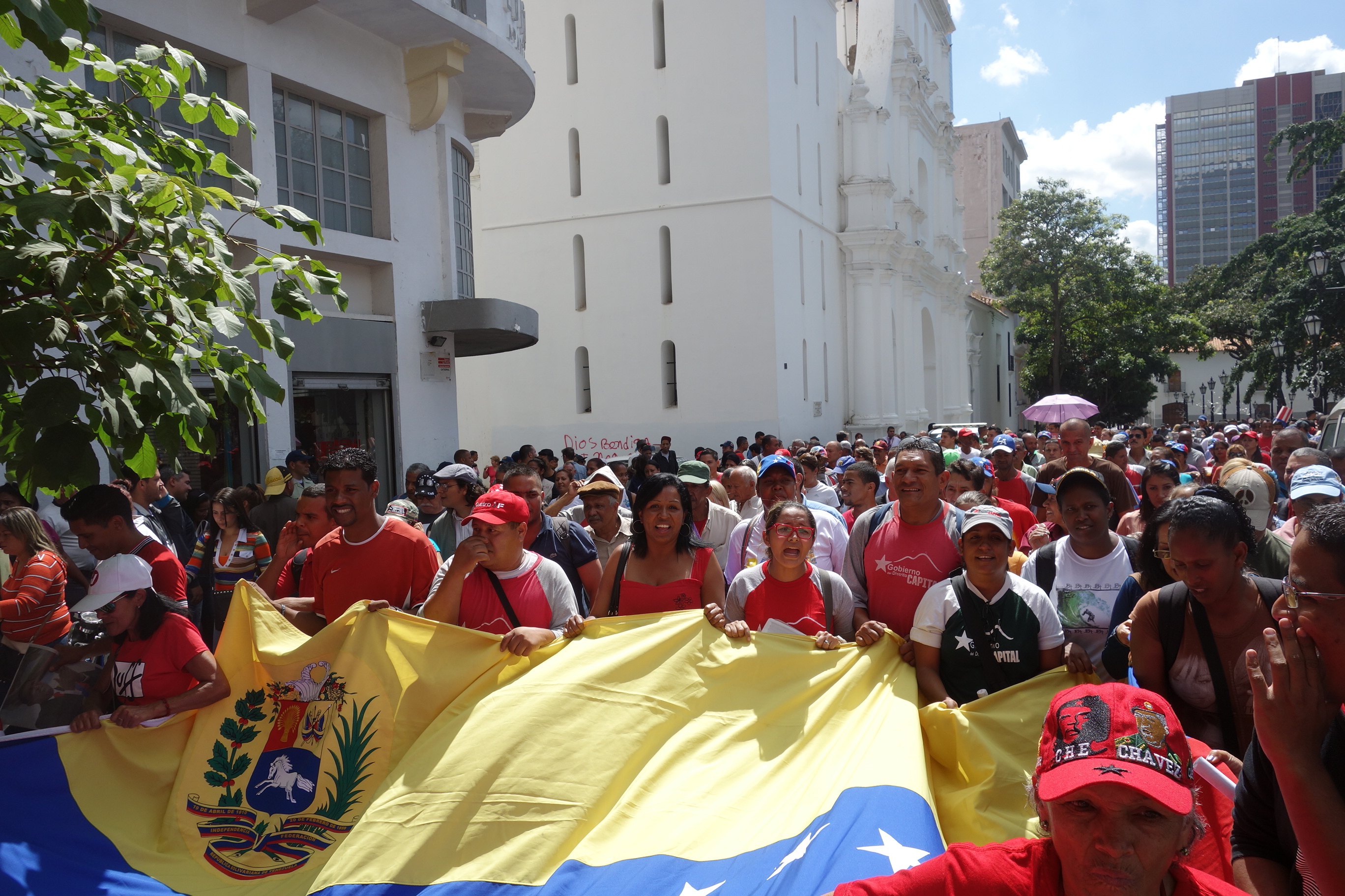 Chavistas protesting the removal Chavez and Bolivar images from the National Assembly.